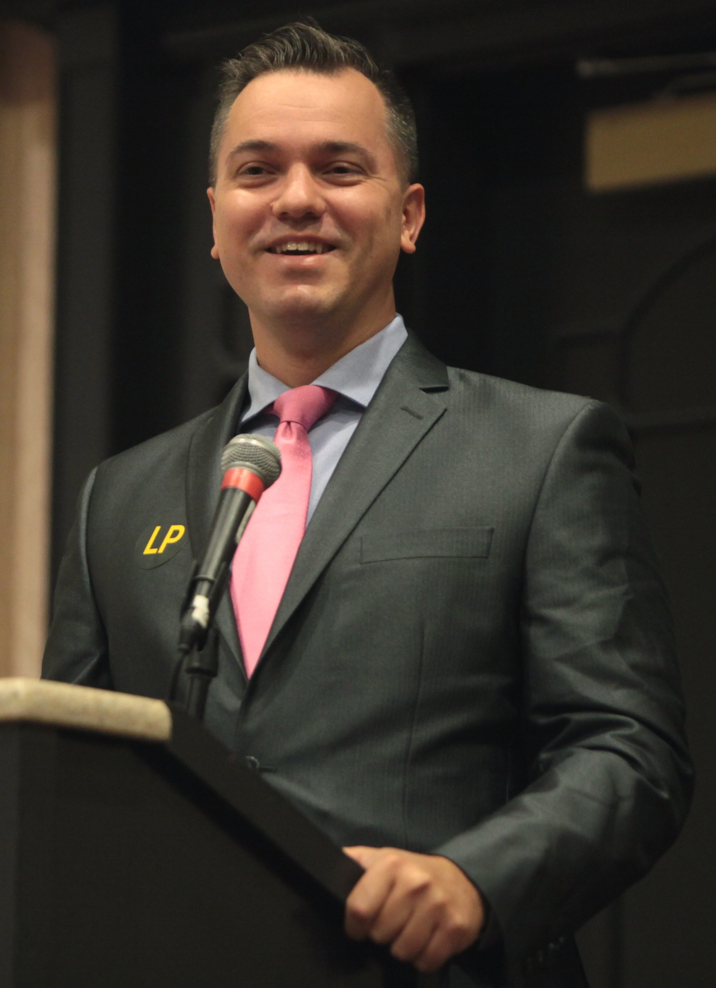 Cropped photo of Austin Petersen speaking at the 2016 FreedomFest at Planet Hollywood in Las Vegas, Nevada.